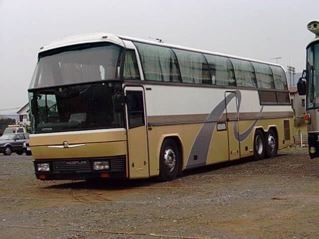 Disused car object廃車体） NEOPLAN Cityliner N116/3, Japan-Version ネオプラン・シティライナーN116/3 日本仕様車 Photo by Cassiopeia_sweet.